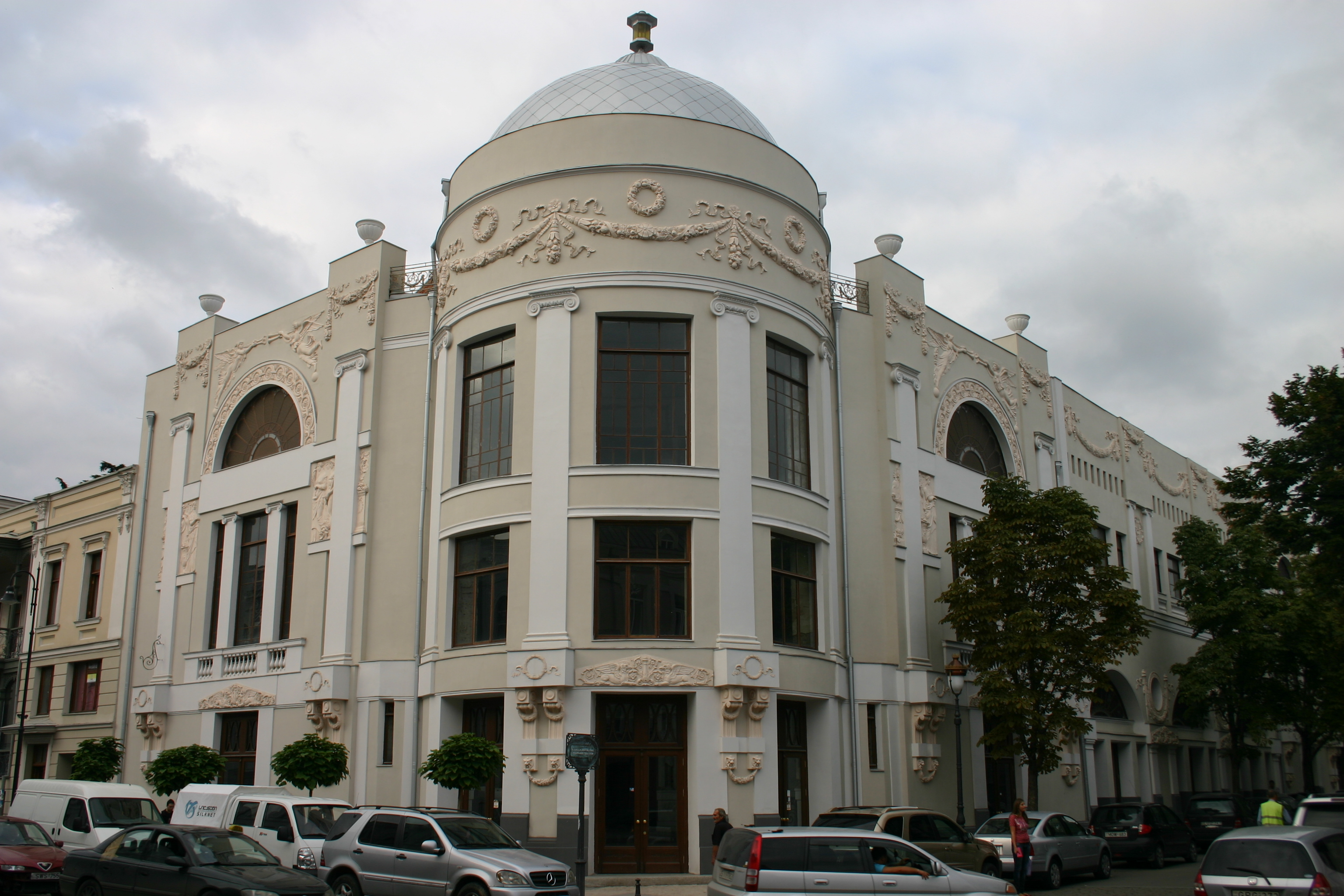 David Agmashenebeli Ave, Tbilisi in September 2012